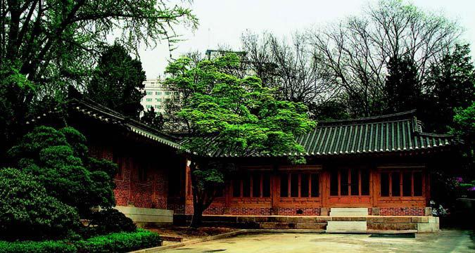 The Seoul Old American Legation, built in 1883 and now used as a guesthouse, is an exceptionally well preserved example of traditional Korean residential architecture.